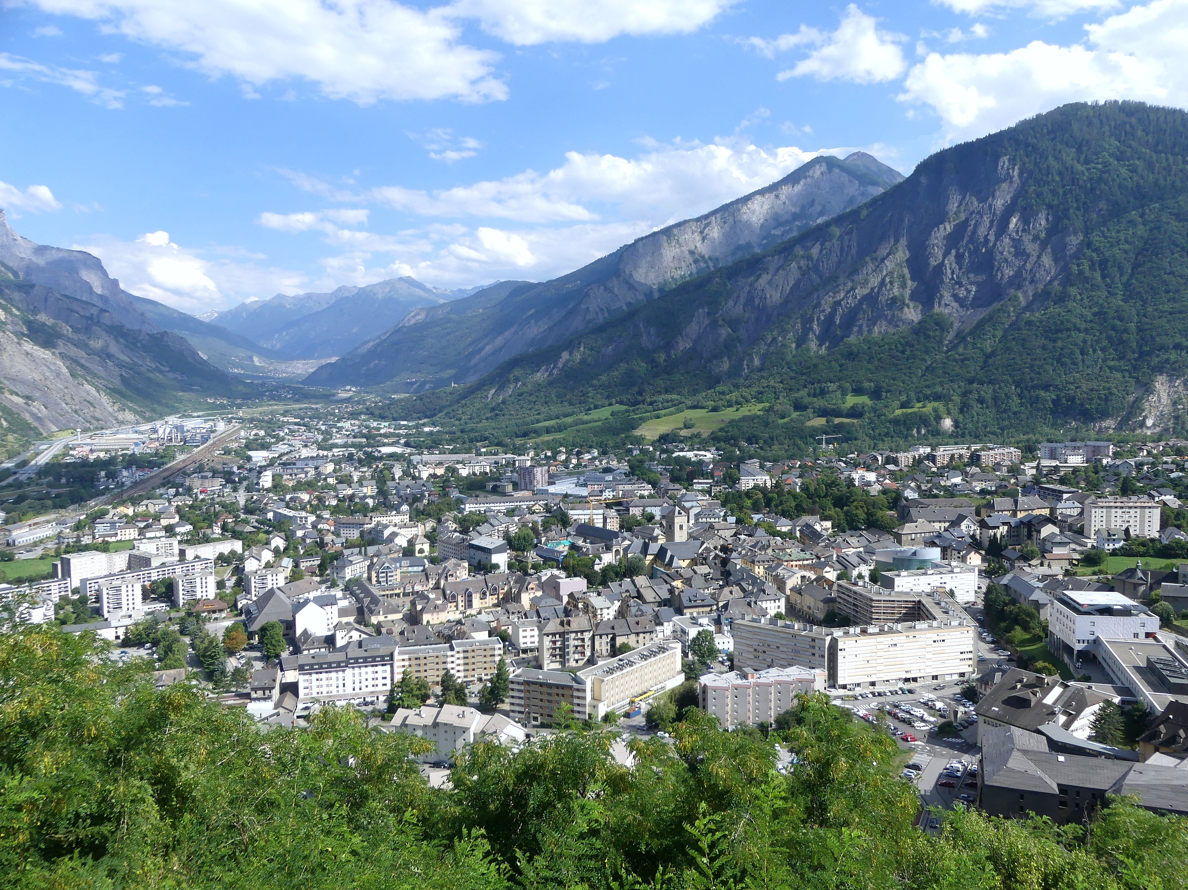 Panoramic sight of Saint-Jean-de-Maurienne, in the Maurienne valley, Savoie, France.